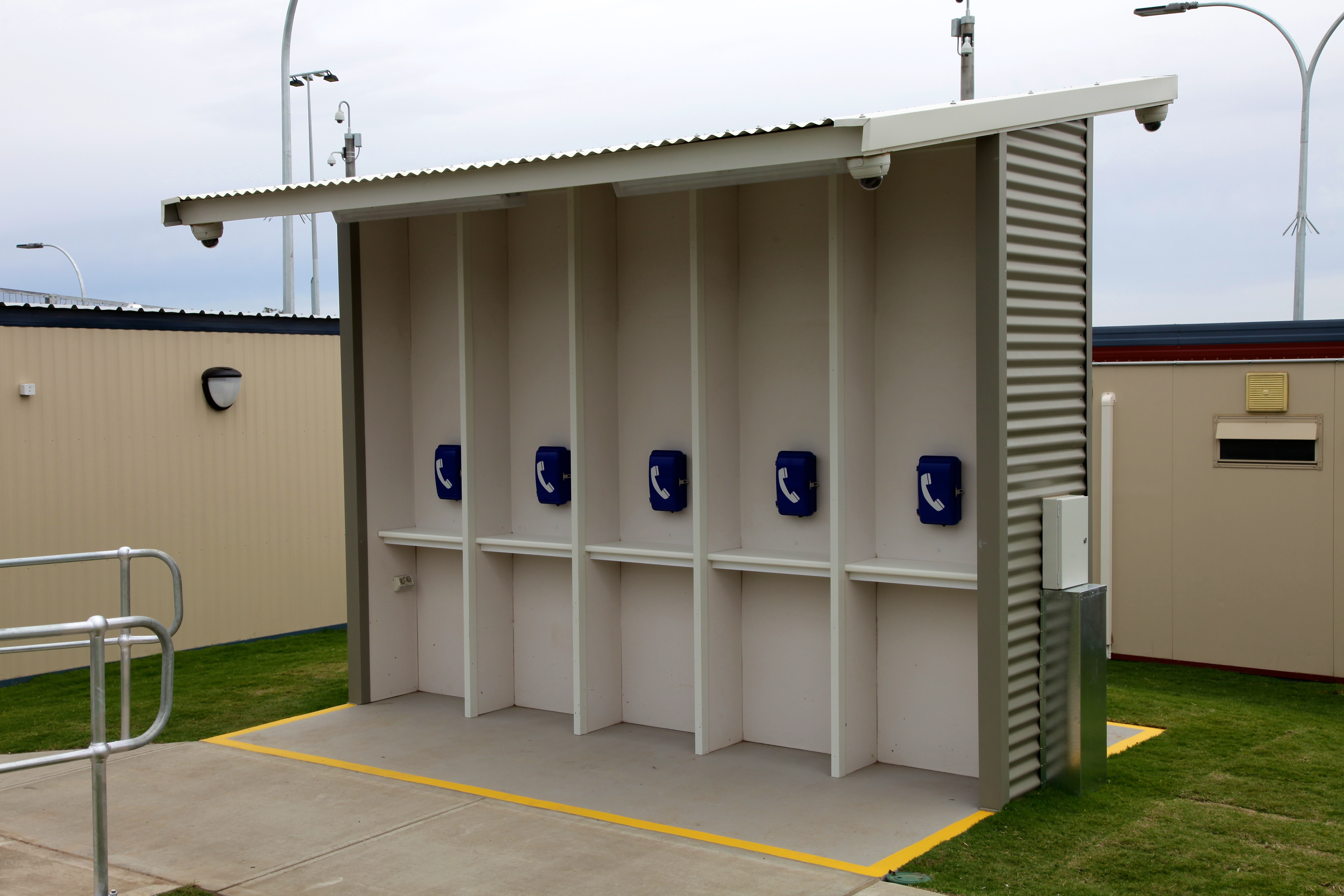 Yongah Hill Immigration Detention Centre